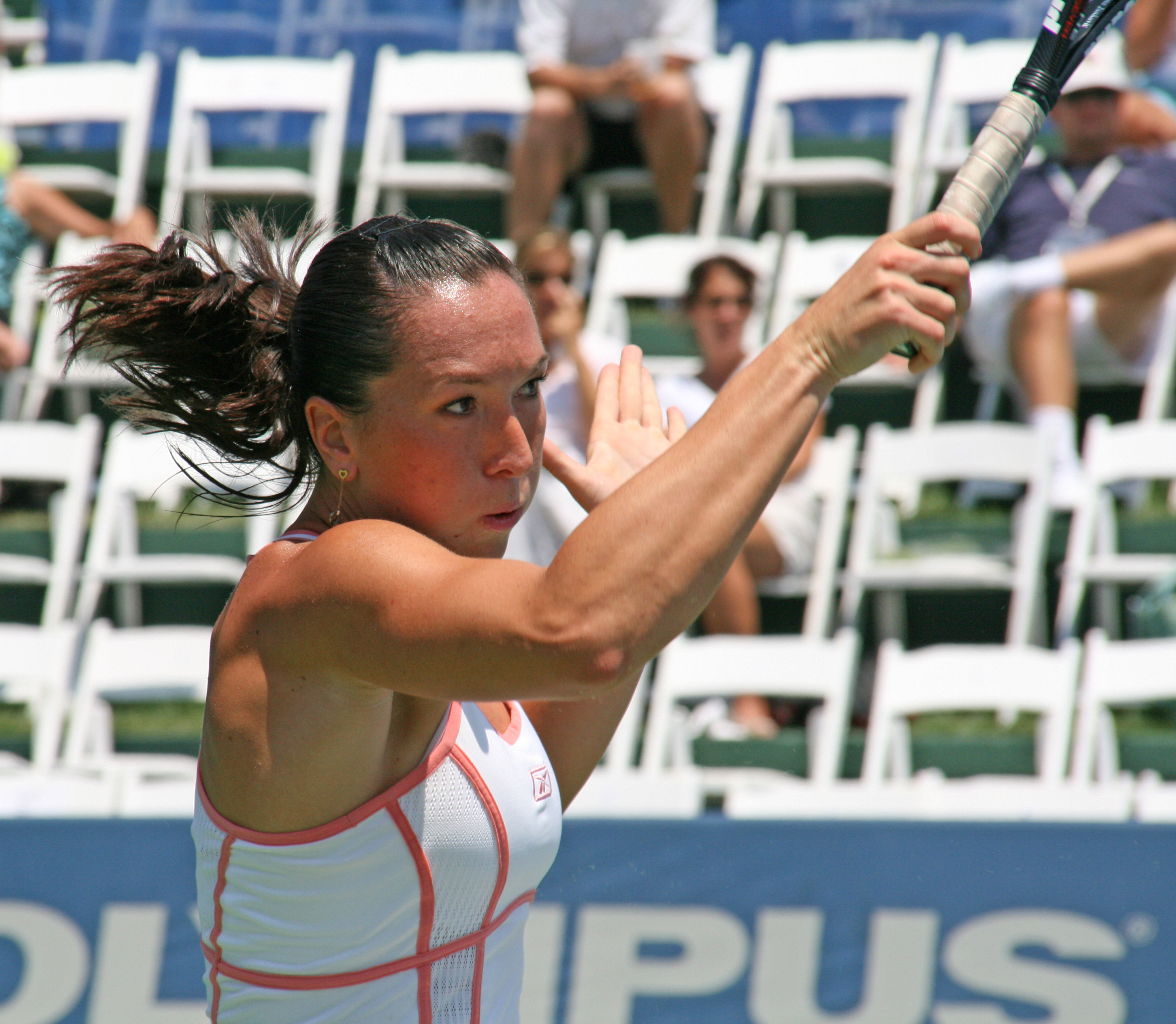 Jelena Jankovic at the 2007 Acura Classic.